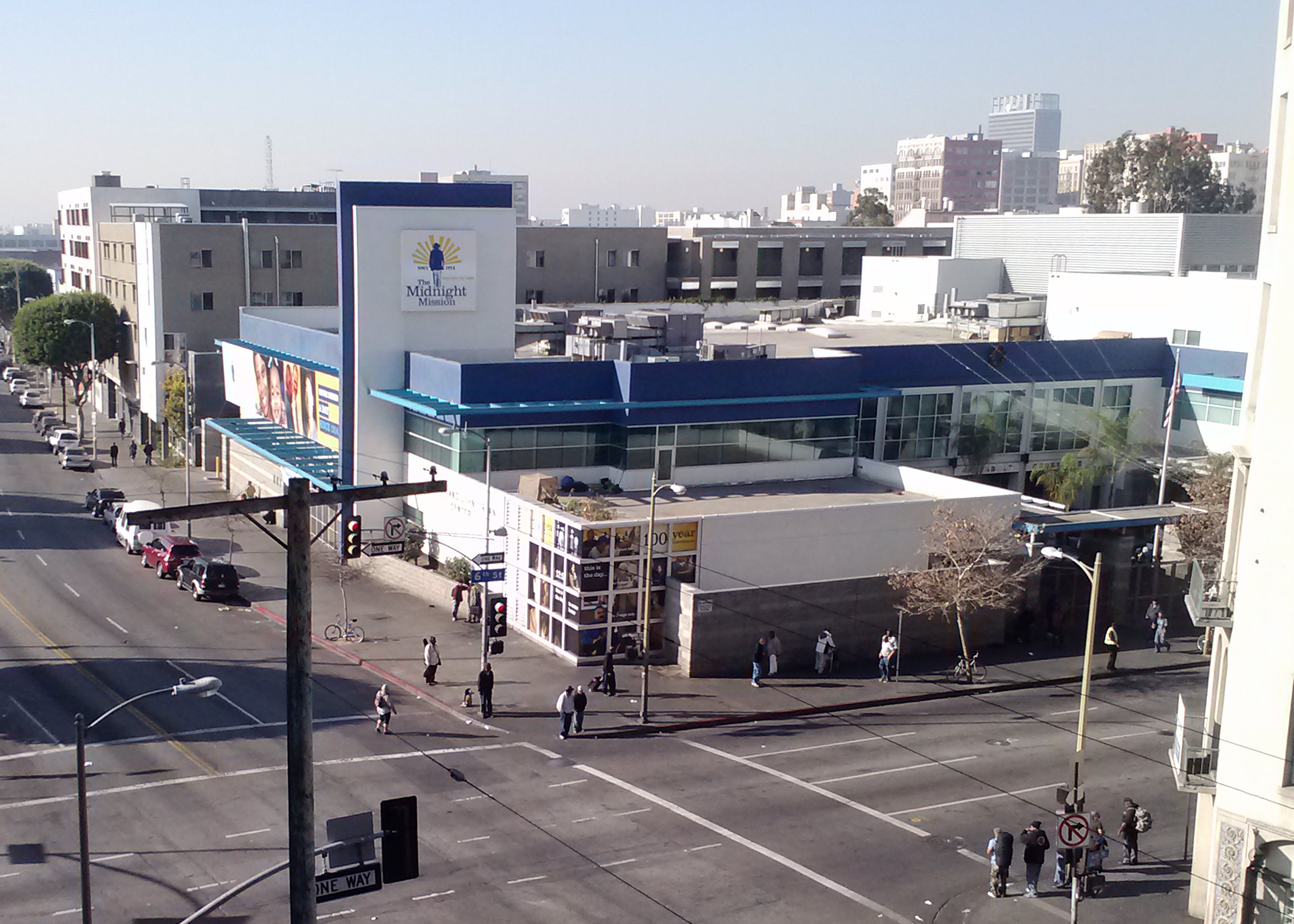 Picture of The Midnight Mission in Skid Row, Los Angeles, California taken on January 1, 2014.